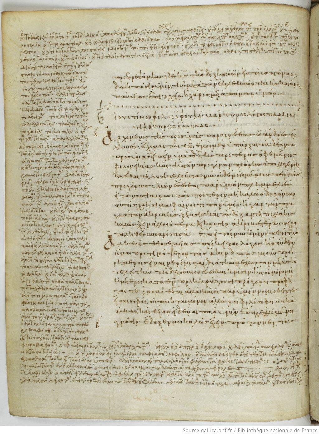 First page of Pseudo-Justin's Exhortation to the Greeks. The 163 page verso from the Arethas Codex, Paris grec 451.